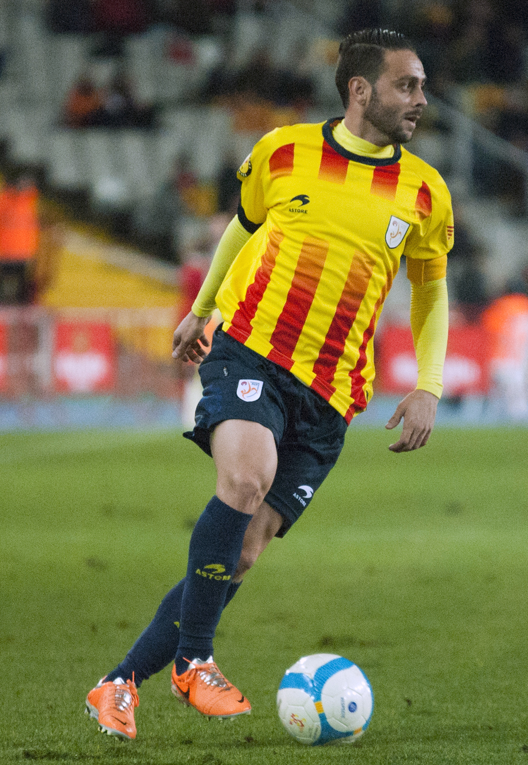 Spanish football player Sergio García de la Fuente during friendly match Catalonia vs. Cape Verde